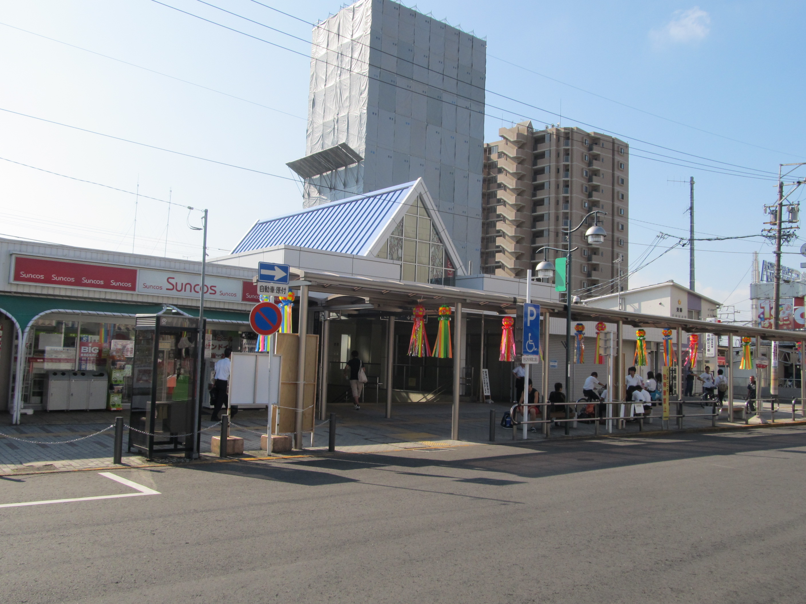 Nagoya Railroad Inuyama Line Kōnan Station West Gate